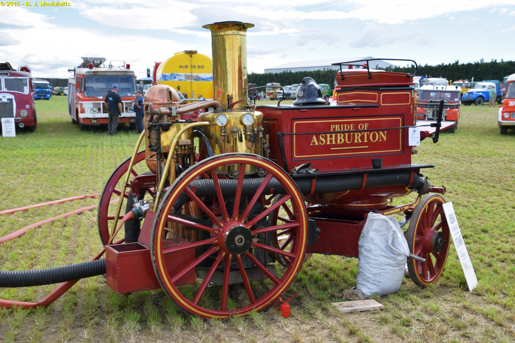 1889 Shand Mason fire engine Pride of Ashburton New Zealand